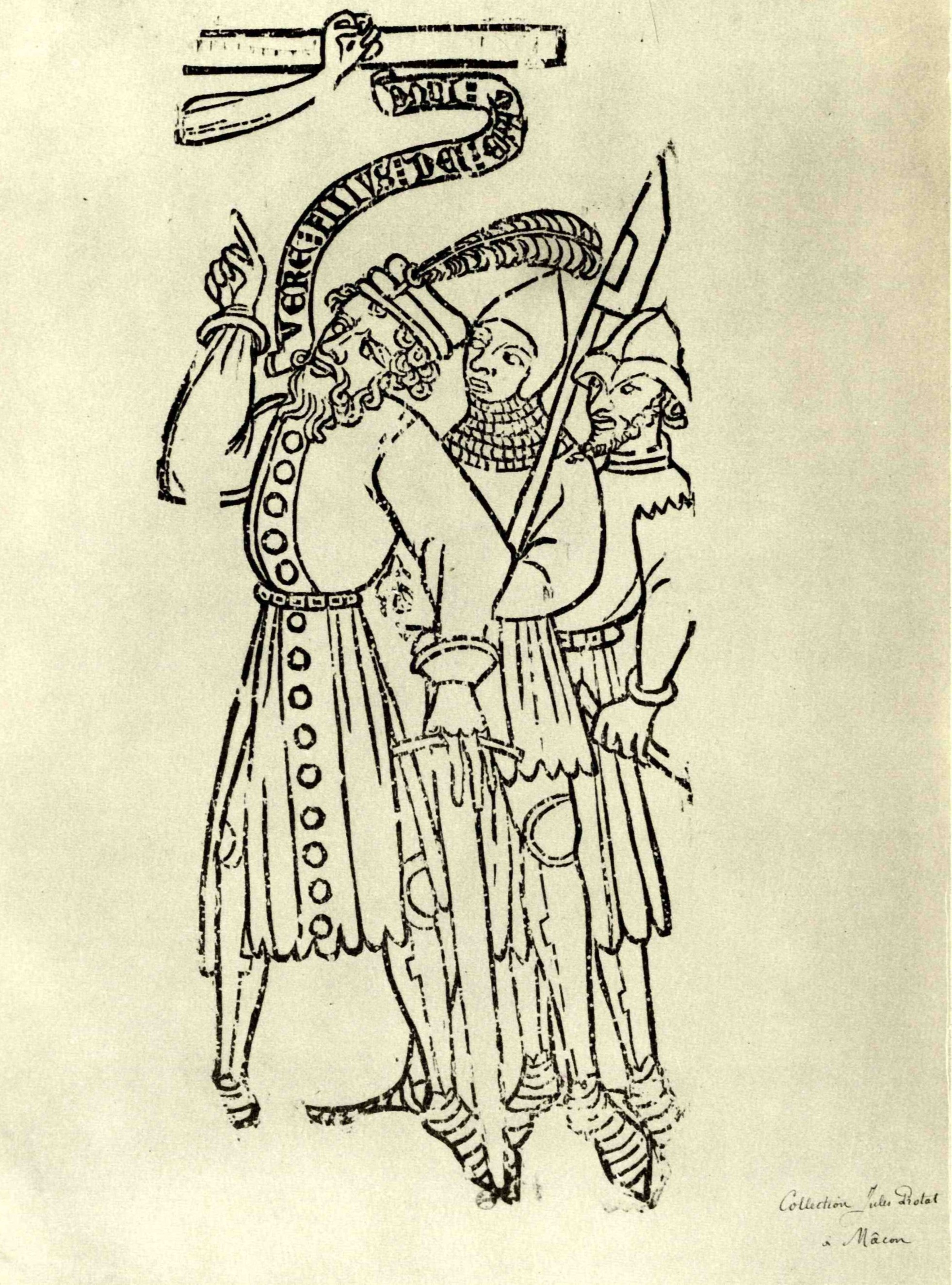 One side of the fragment Bois Protat woodcut, circa 1370–1380. A ribbon emanating from the centurion's mouth reads "Vere filius Dei erat iste" ("This was really the son of God").